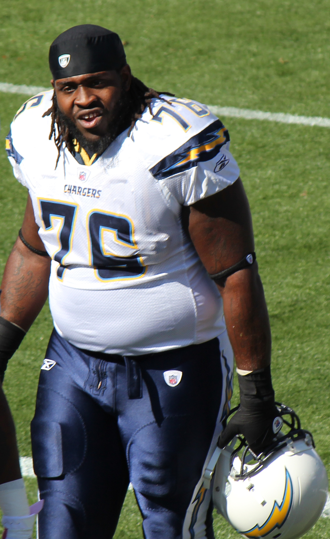 Cam Thomas, a National Football League player.